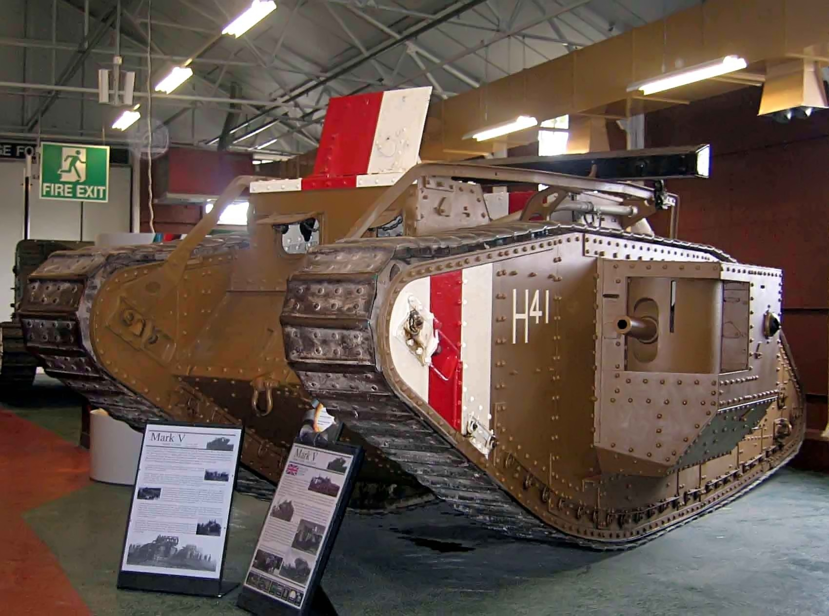 Photograph of Mark V Male Tank, Number 9199, the only British World War I tank still in working order. At Bovington Tank Museum, UK. See also File:Mark V tank Bovington Flickr 4773871655.jpg